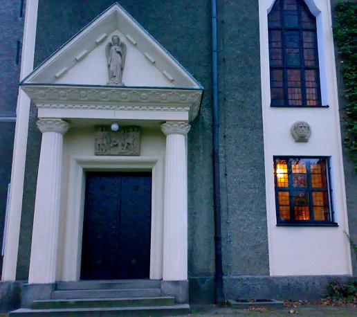 Zielona Gora - Salvator church. Detail.